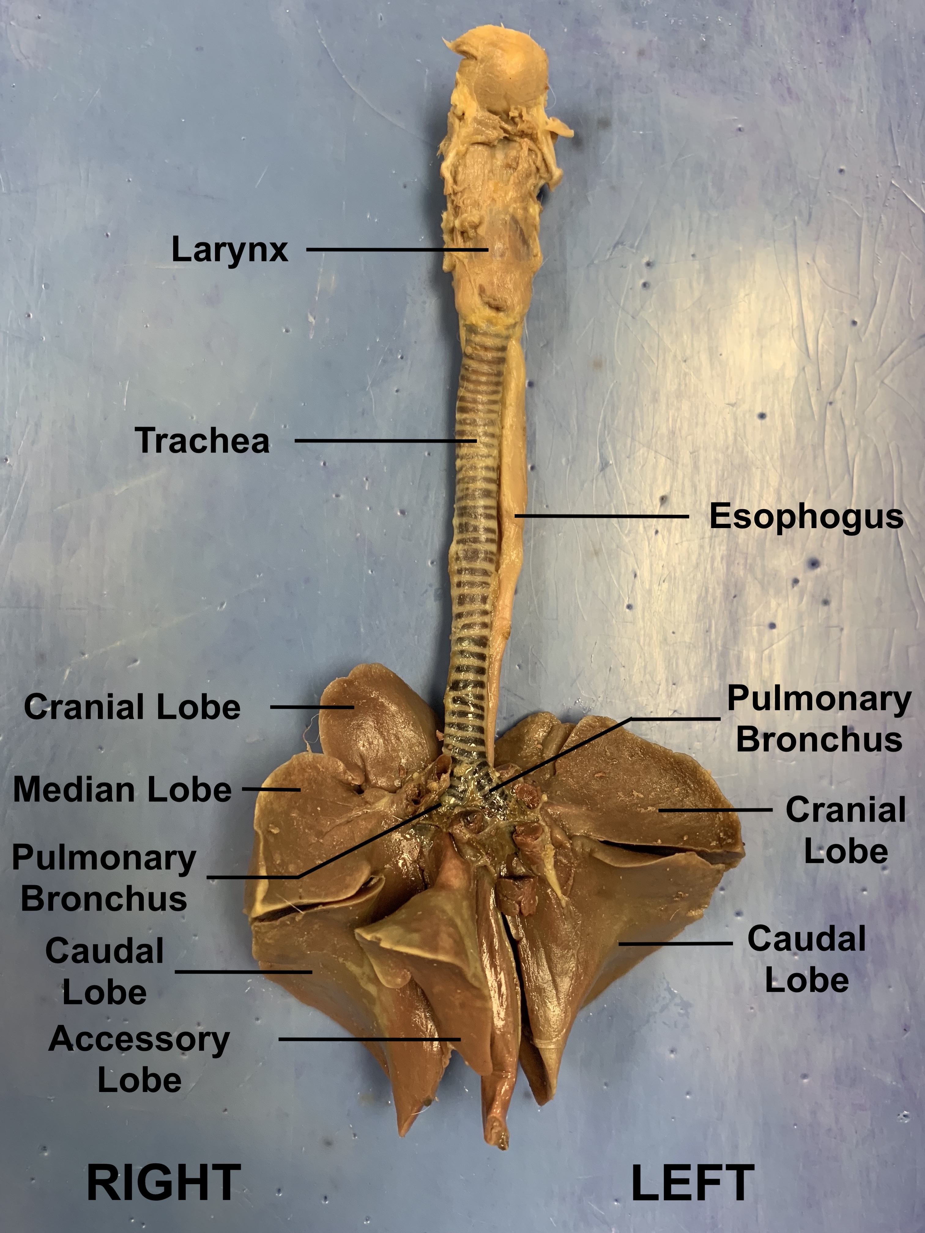 A photograph of dissected rabbit lungs with the trachea intact.